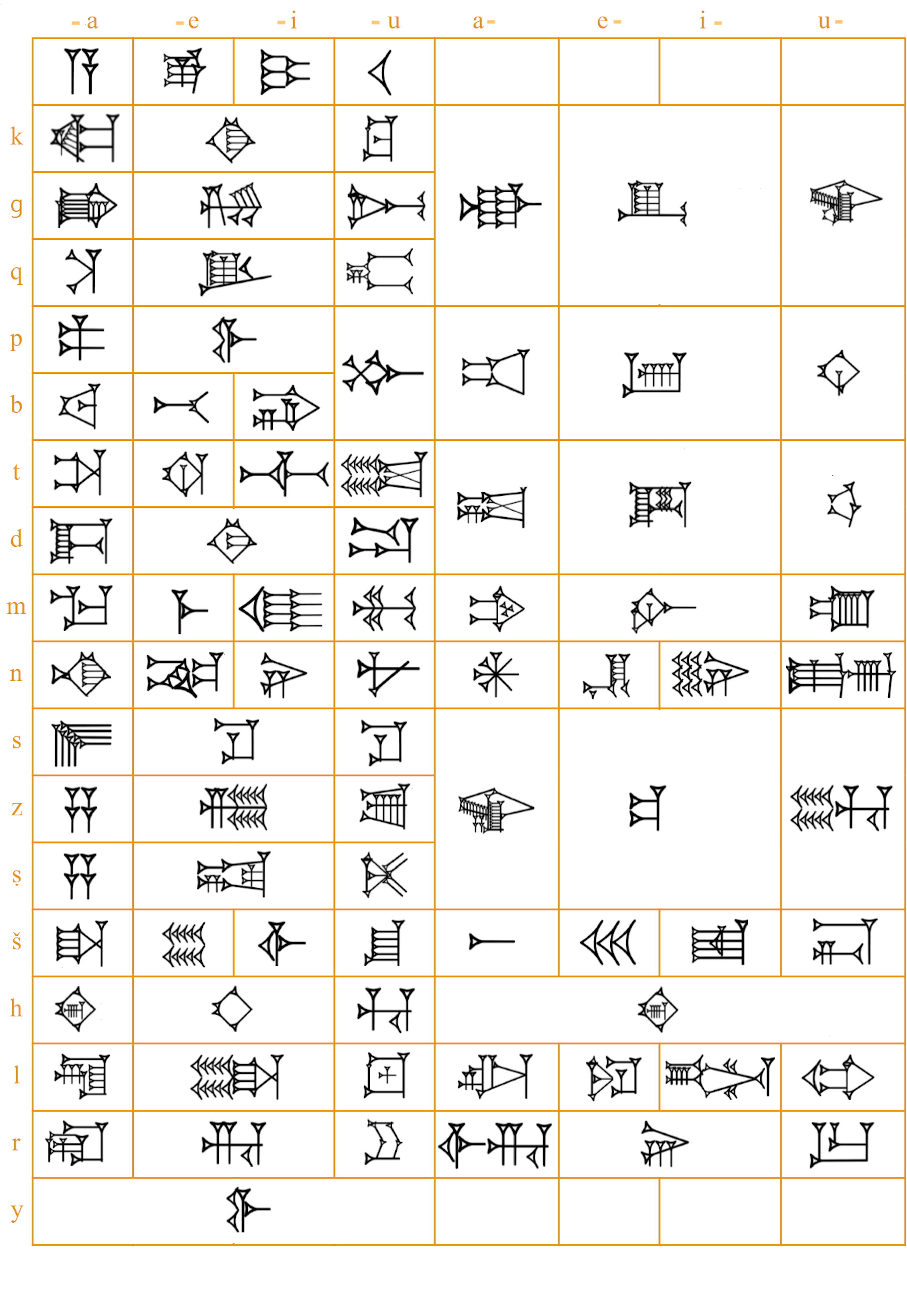 Sumero-Akkadian cuneiform syllabary Reference